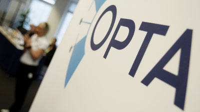 Het logo van de Opta - Foto: ANP/Rick Nederstigt